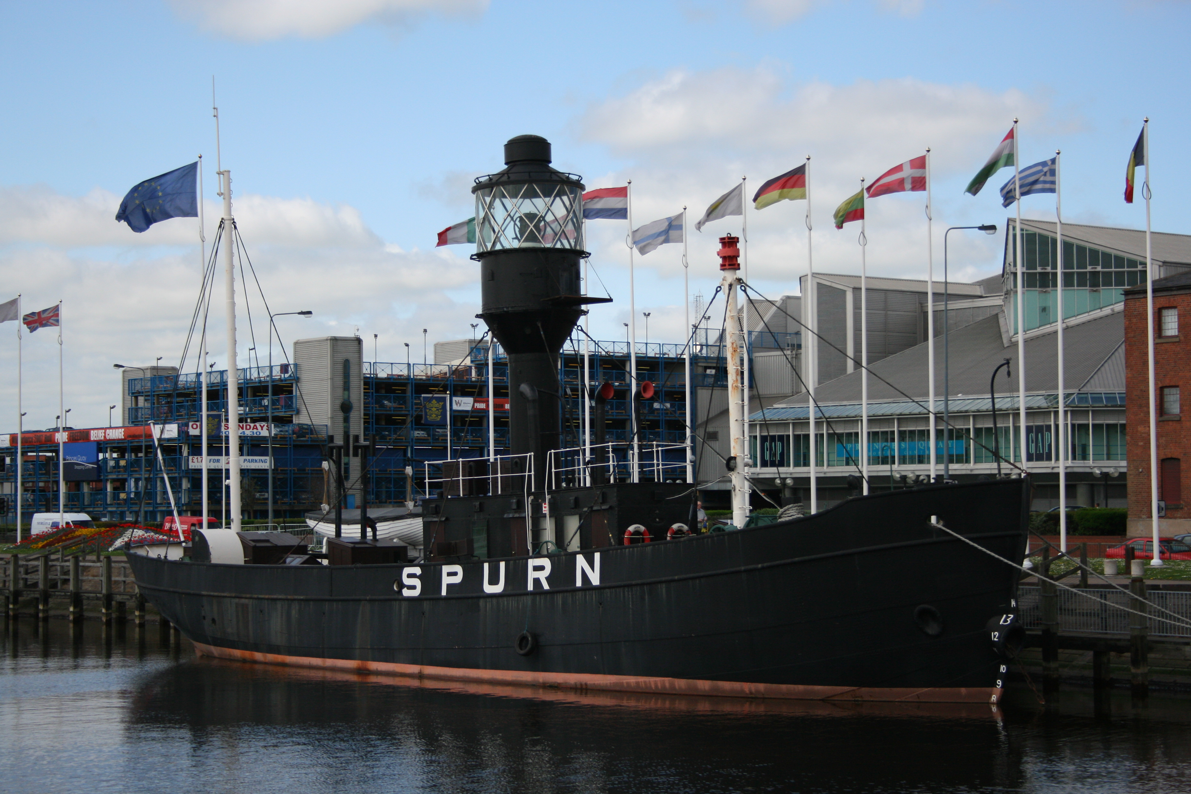 Photo's of Hull The Spurn Lightship now a museum in Hull marina